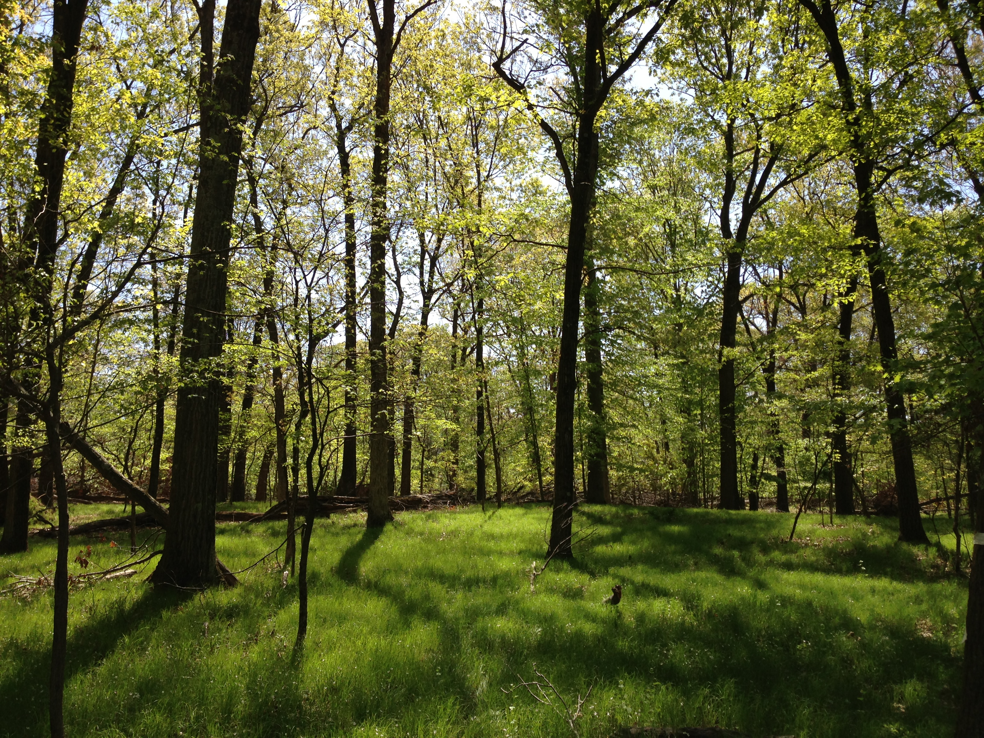 "Old growth" forest (Kilmer Woods) along the Green and Red Trails in the Rutgers Ecological Preserve, New Jersey. This section of the forest has been allowed to proceed through successional stages since before 1840, per signs within the preserve.